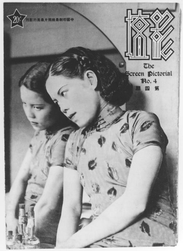 Shu Xiuwen on the cover of The Screen Pictorial magazine, issue No. 4